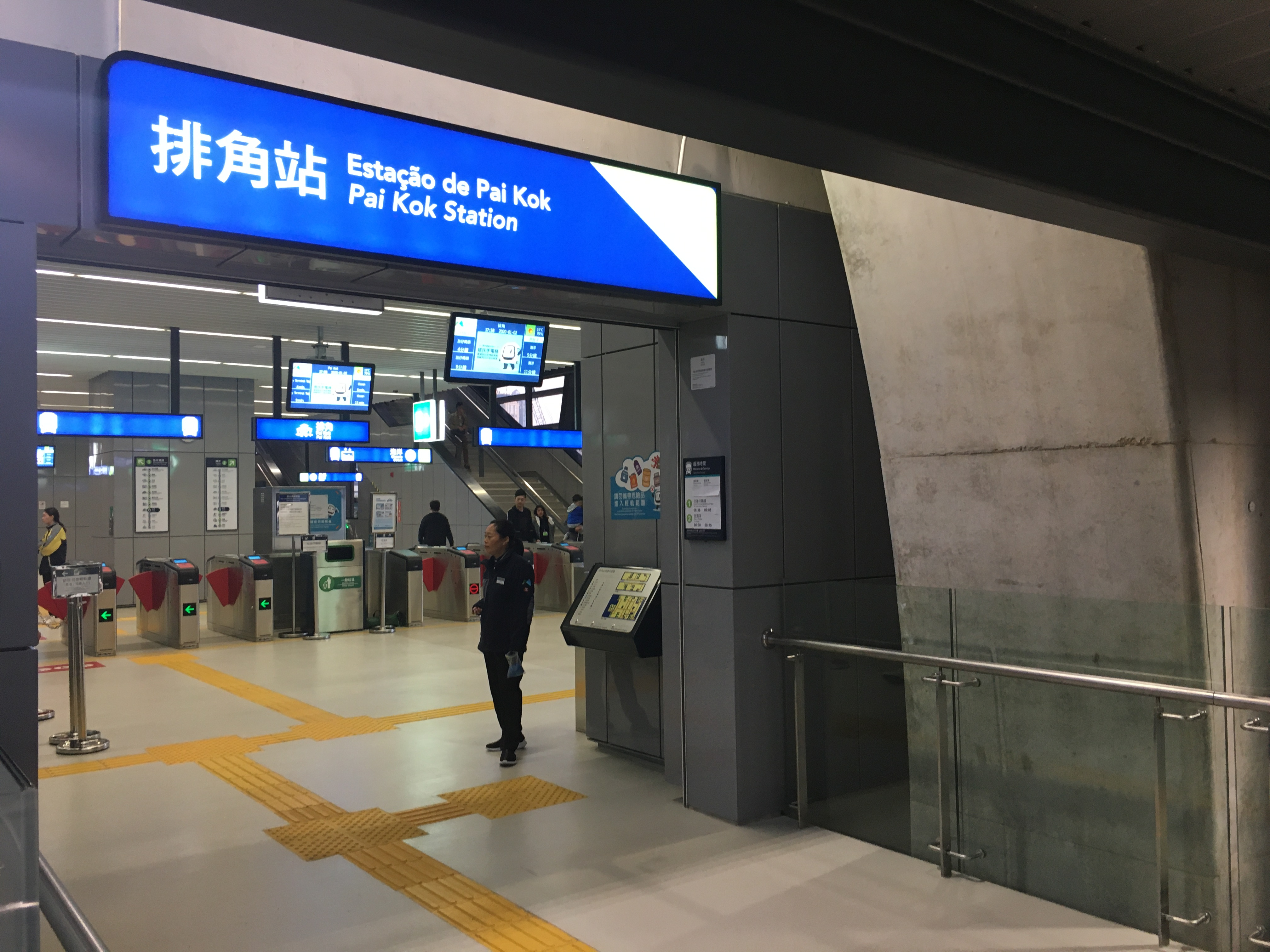 中文（香港）: This photo is taken in Pai Kok.